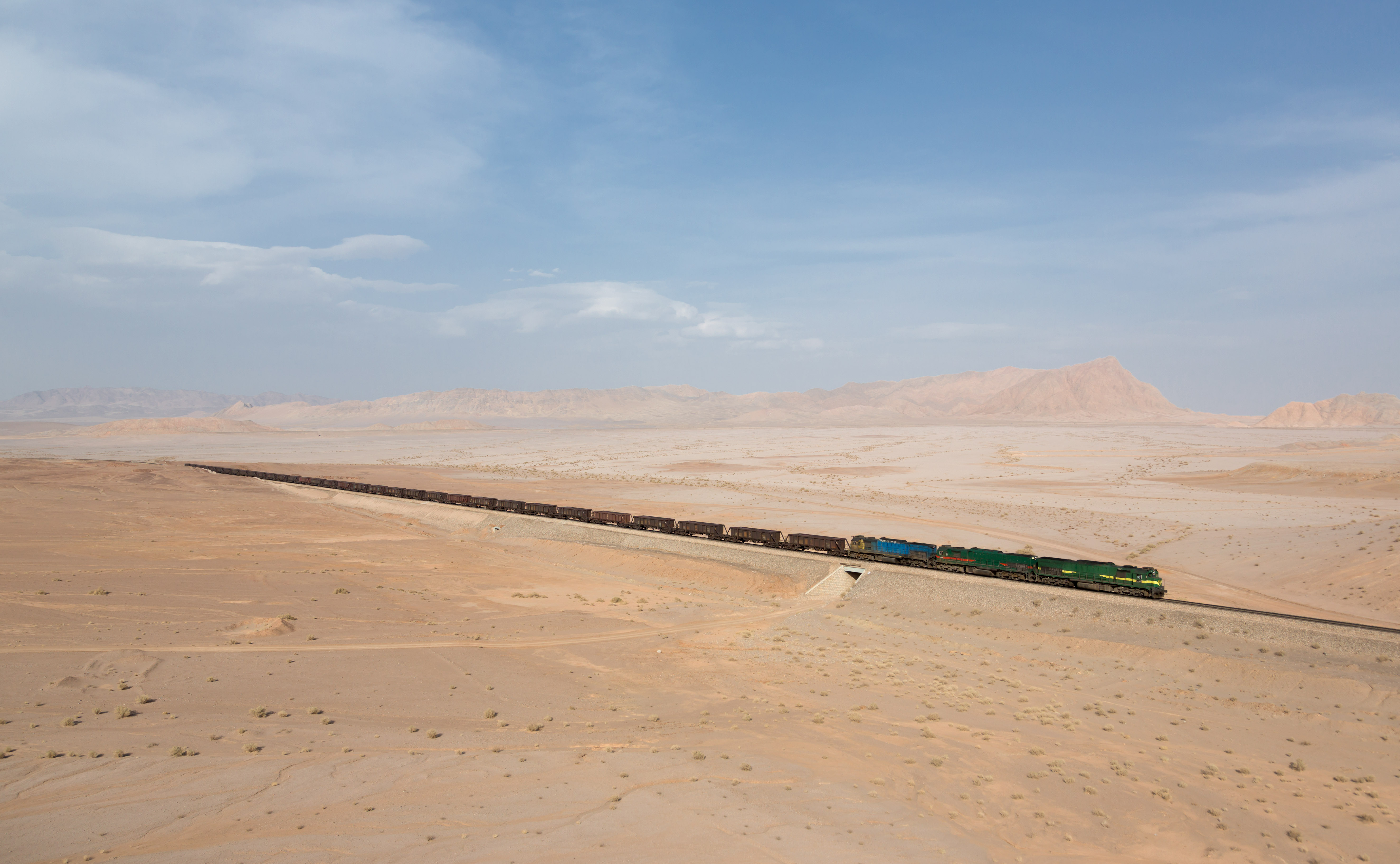 60-819 (EMD GT26) of Islamic Republic of Iran Railways and two units of the same type haul a loaded iron ore train between Bafq and Yazd, Iran